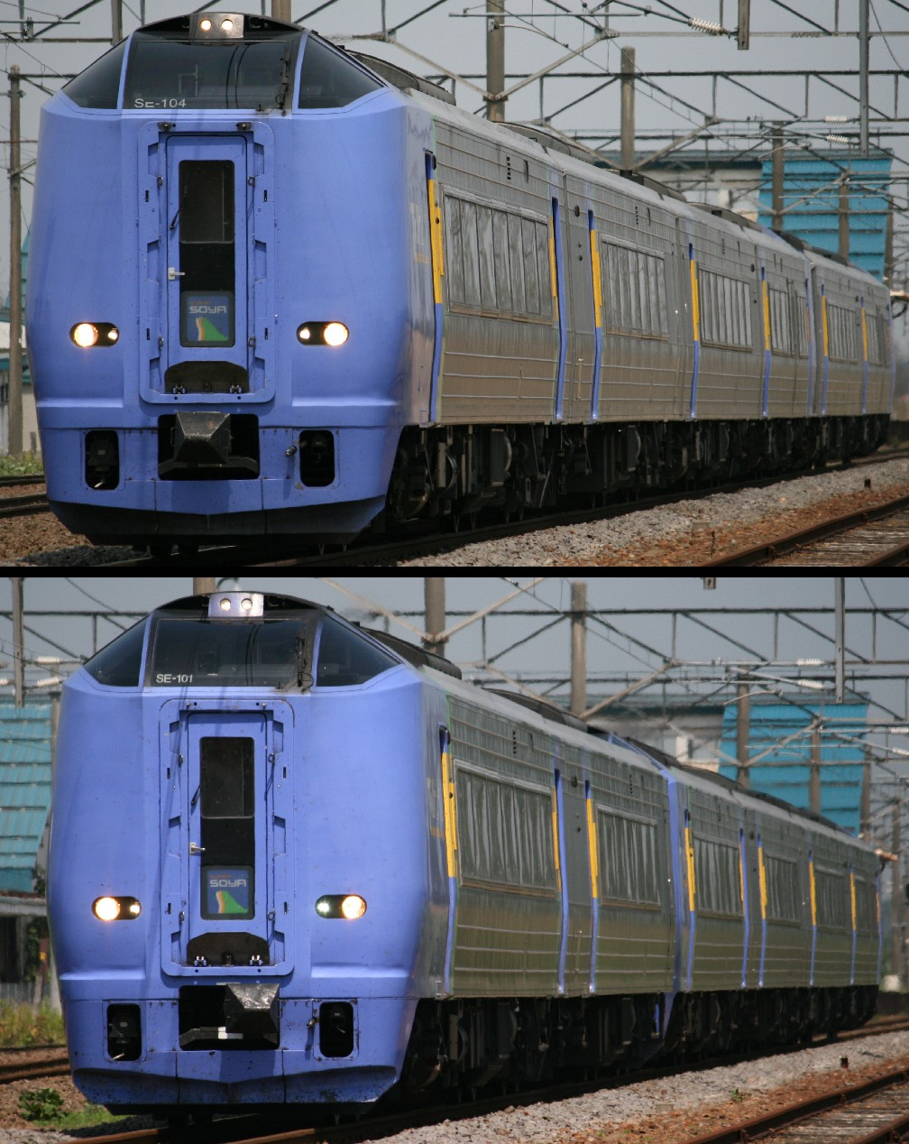 Super SOYA Express 6cars